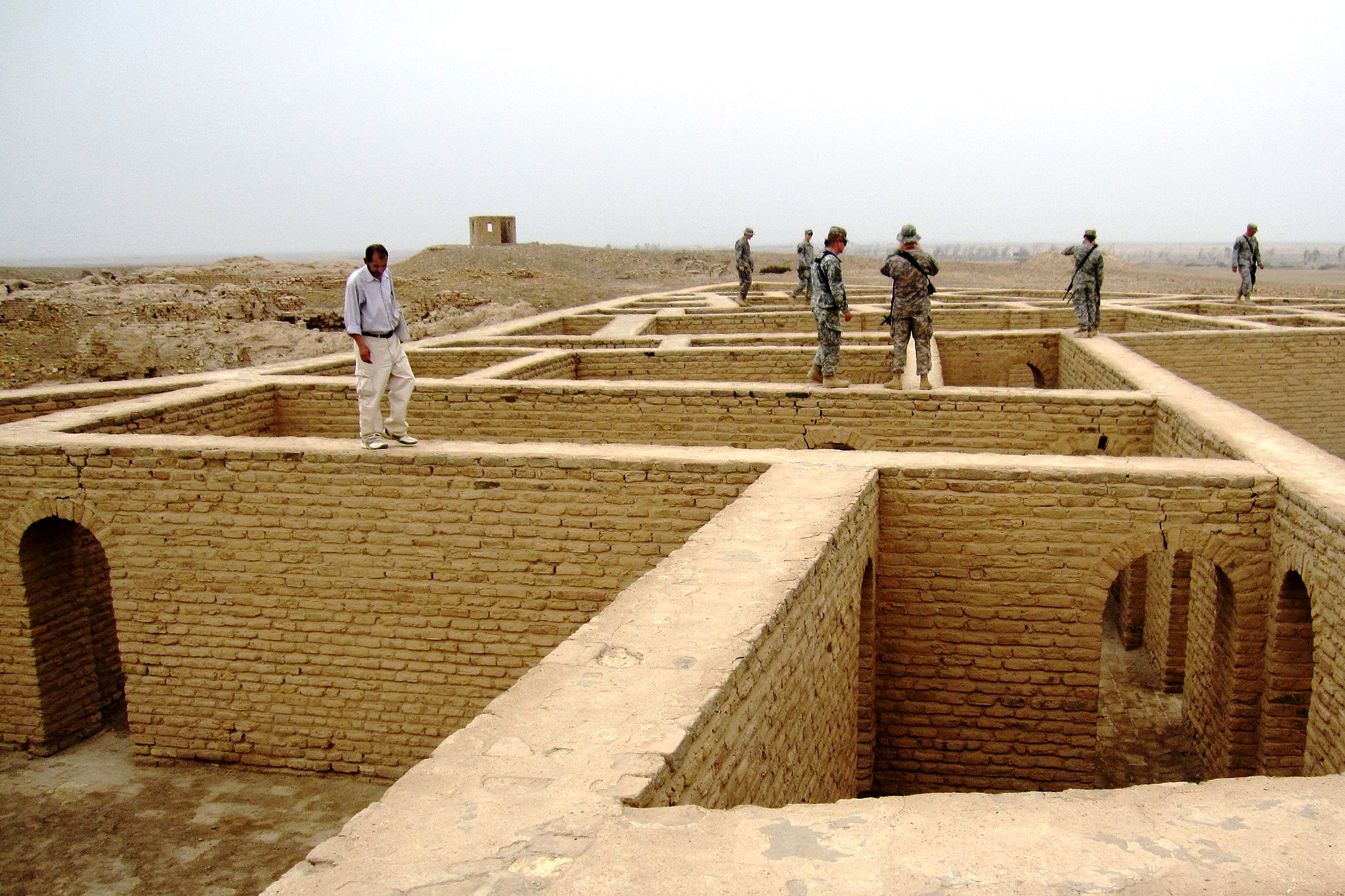 With the help of a tour guide, U.S. Army Soldiers explore what is thought to be the biblical home of Abraham among ruins discovered near the Great Ziggurat of Ur close to Contingency Operating Base, Adder, Iraq, Nov. 21, 2009.The Sumerians built the Ziggurat of Ur to honor their moon god, Nanna. The Soldiers are assigned to the 1st Armored Division's 4th Special Troops Battalion, 4th Brigade Combat Team. U.S. Army Spc. Shane P.S. Begg See more at